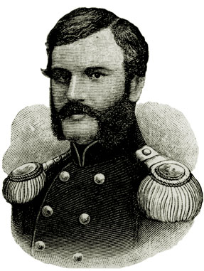 Dmitry Zhuravsky